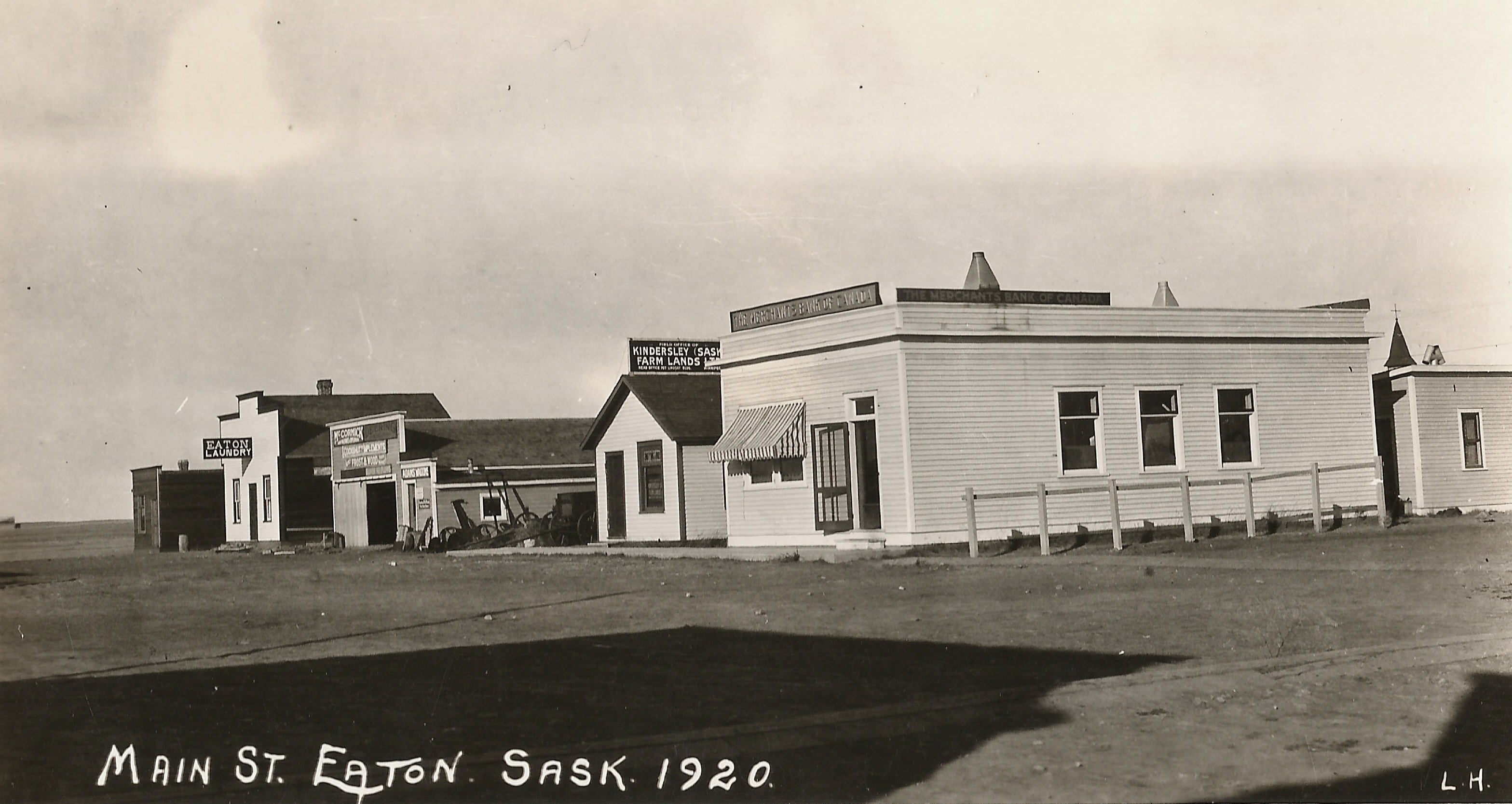 Postcard of Main Street in the town of Eaton, Saskatchewan, Canada, in 1920. The town was founded in 1919, and changed its name to Eatonia in 1921 due to confusion with nearby Eston, Saskatchewan. The businesses shown on the postcard are, from left to right: Eaton Laundry McCormick Implements Field office of Kindersley (Saskatchewan) Farm Lands Ltd. The Merchants Bank of Canada (merged nationally with Bank of Montreal in 1922)